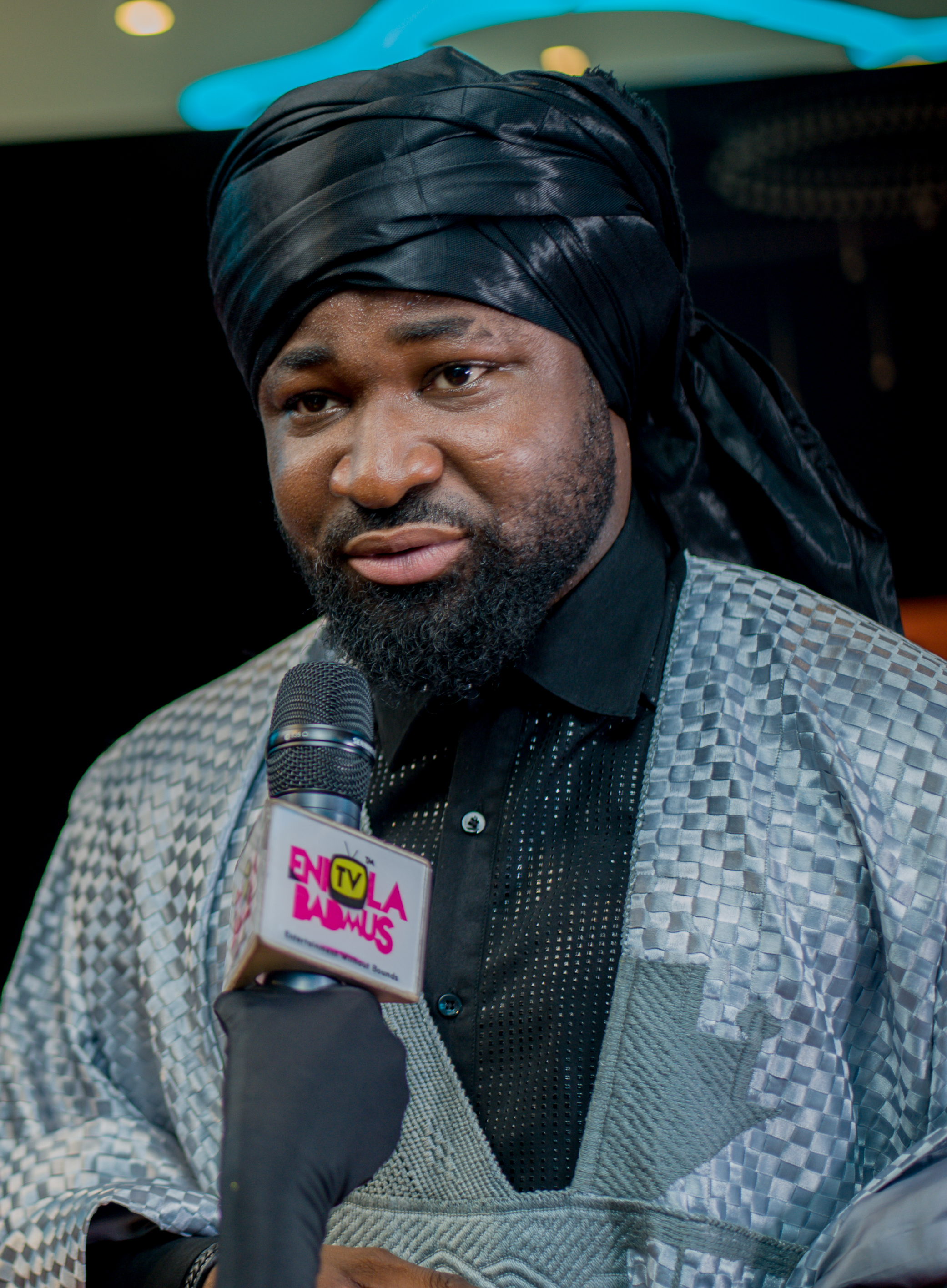 Pictures from AMVCA 2020